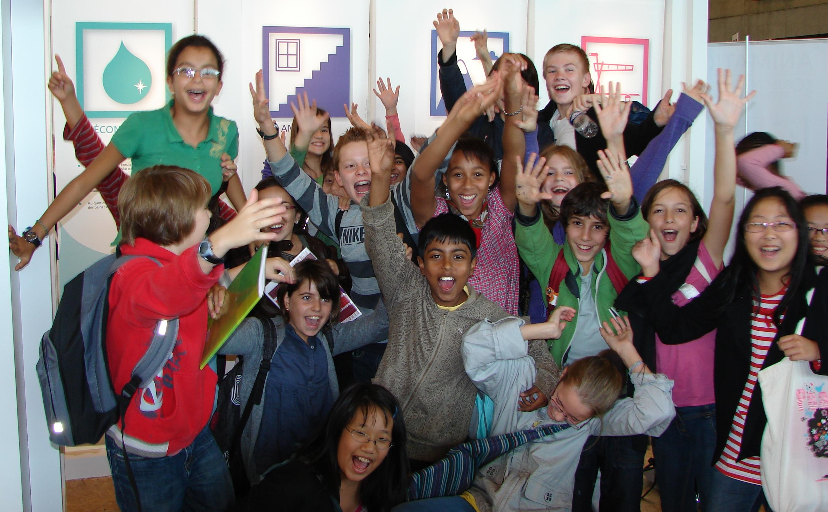 Sustainable development exhibition Planète mode d'emploi at Paris